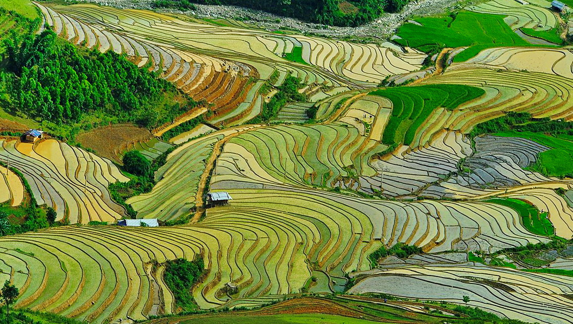 KHAU PHẠ MÙA NƯỚC ĐỔ terraced rice paddies at Khau Phạ Pass, season water